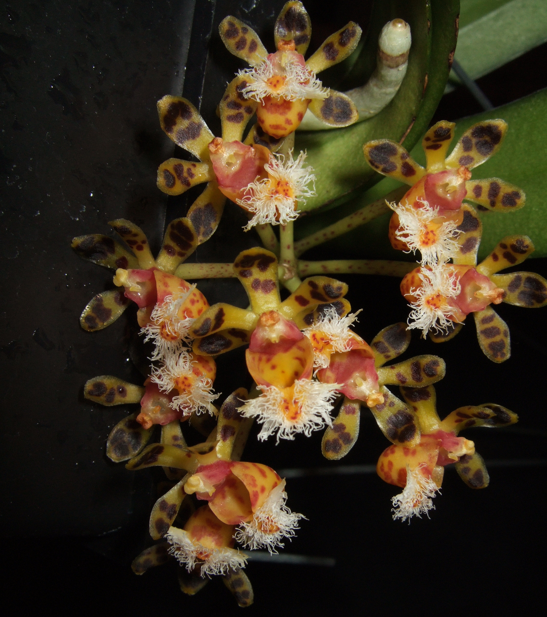 Flower of Gastrochilus calceolaris.